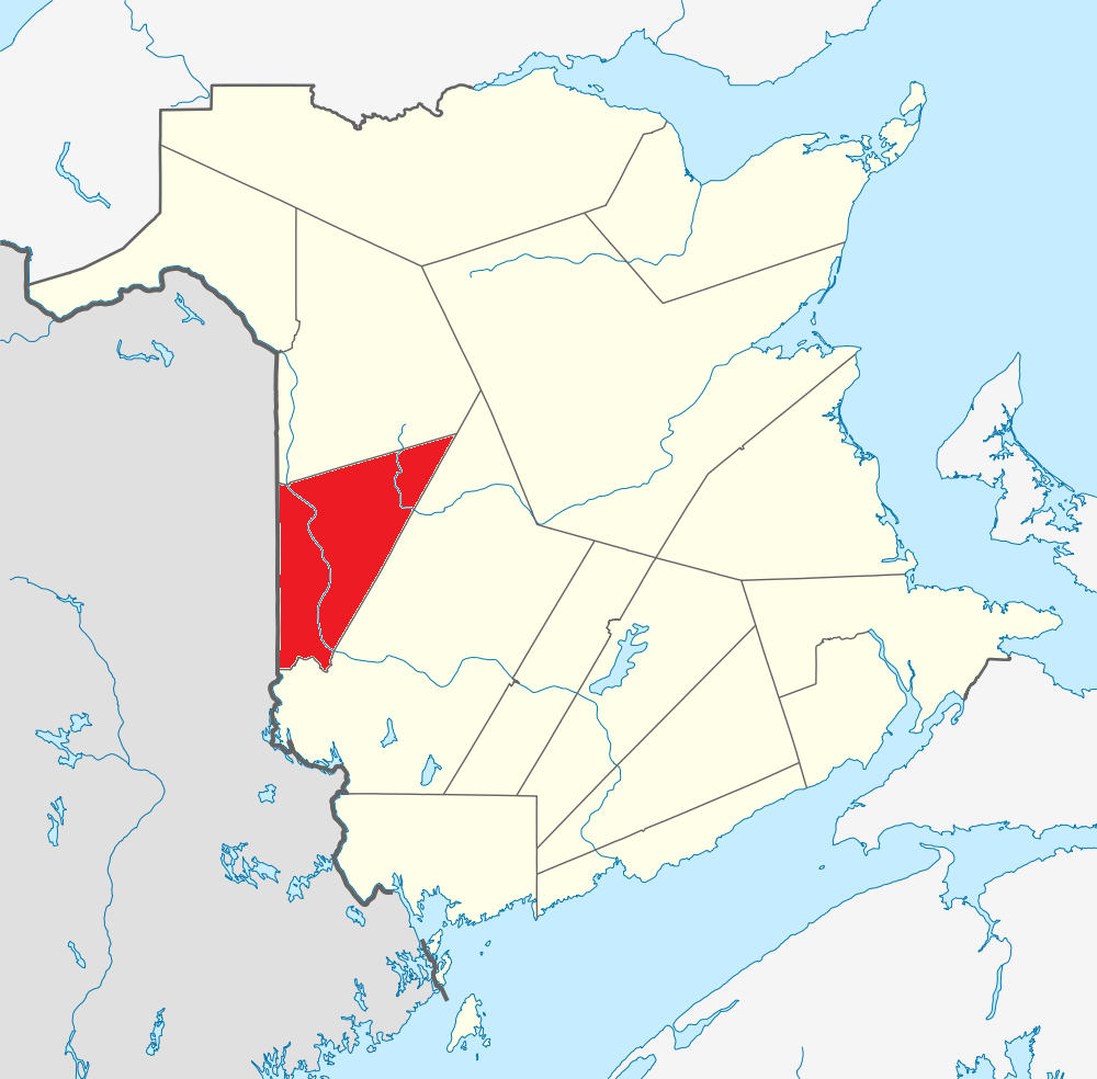 Map of New Brunswick highlighting Carleton County